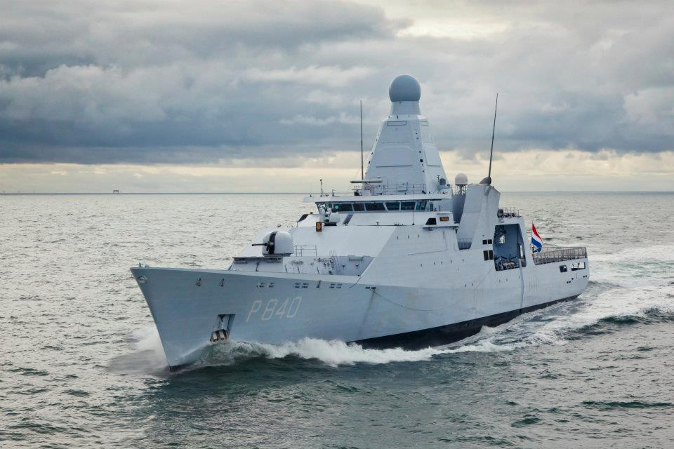 HNLMS Holland incl. the I-Mast. (min. van defensie). Note: Since 30 April 2013, the name of the ship is: Zr Ms Holland (Zijner Majesteits Holland, His Majesty's Holland) in stead of Hr Ms Holland (Her Majesty's Holland) as a result of the abdication of Queen Beatrix, see [ here] for more info (in dutch.